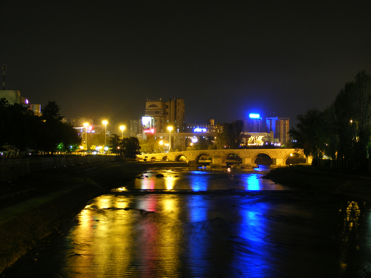 The Stone Bridge in Skopje, Republic of Macedonia at night.